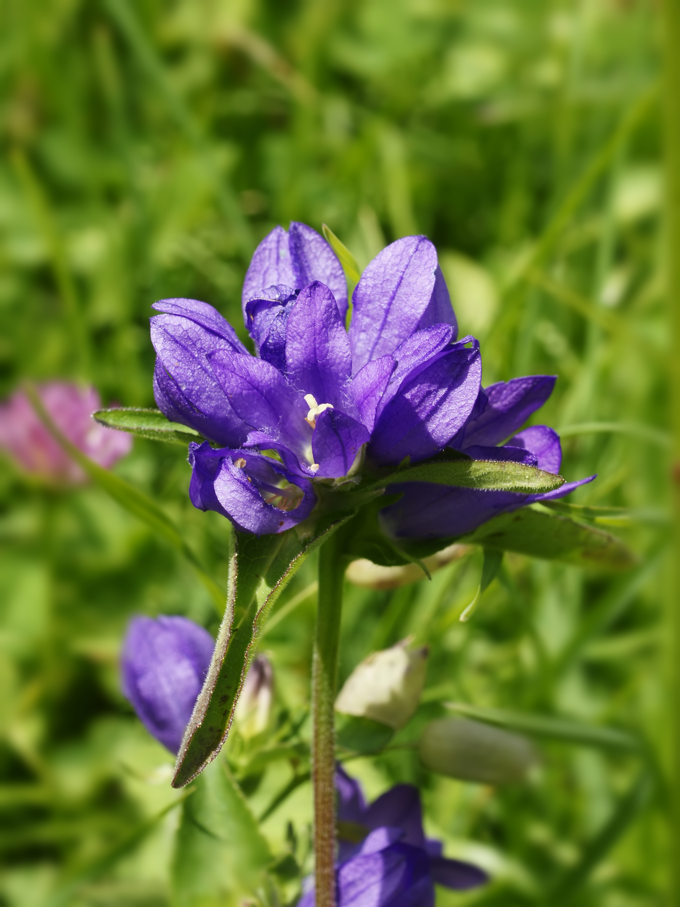 Clustered Bellflower, close to Visp, Wallis, Switzerland